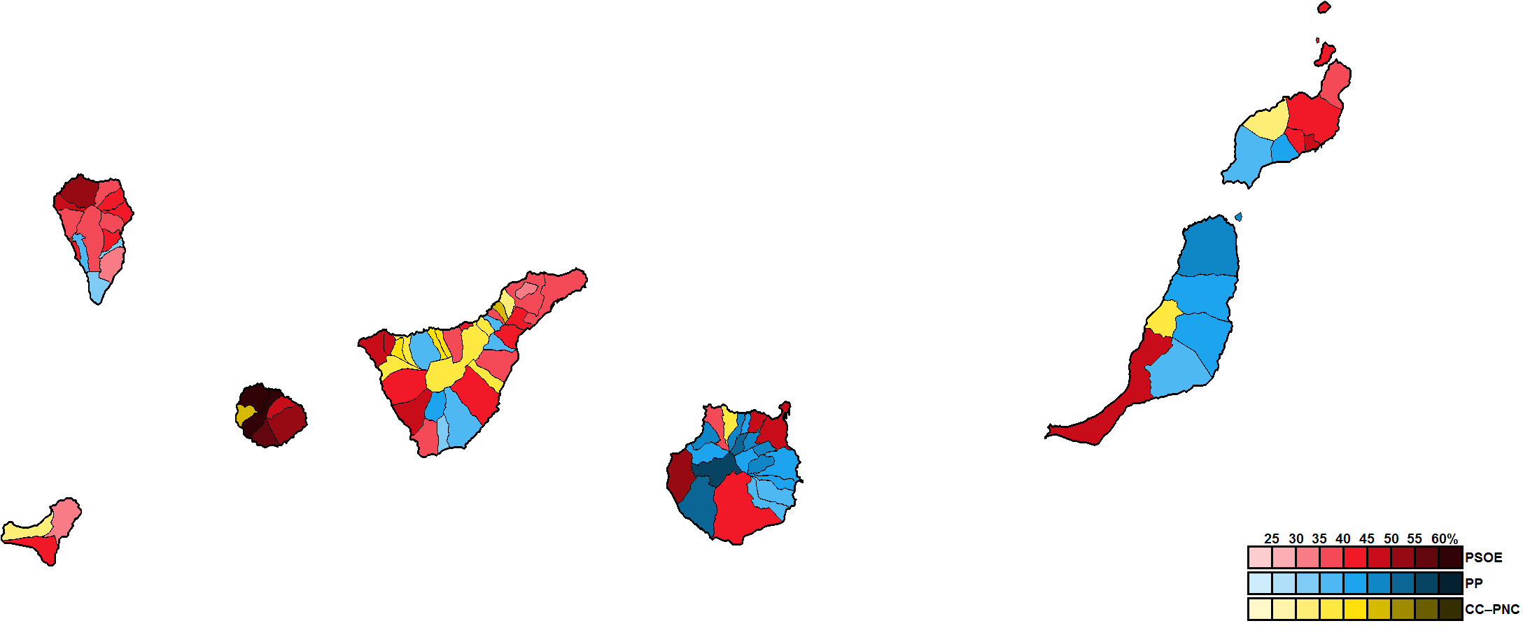 Most-voted party in Canary Islands municipalities, showing vote share obtained, in the Spanish general election, 2008.